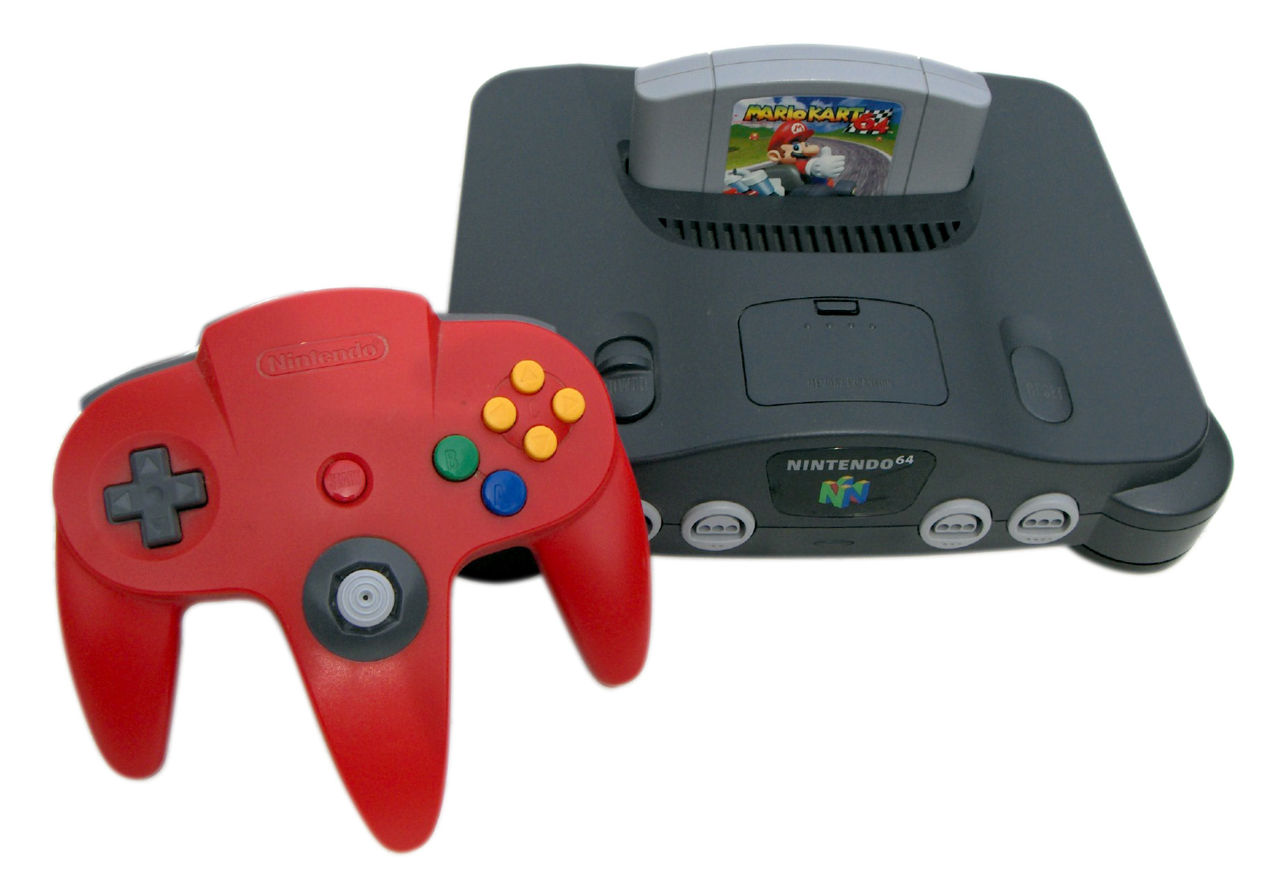 Nintendo 64 outlined Céréales Killer 11:42, 12 January 2006 (UTC)